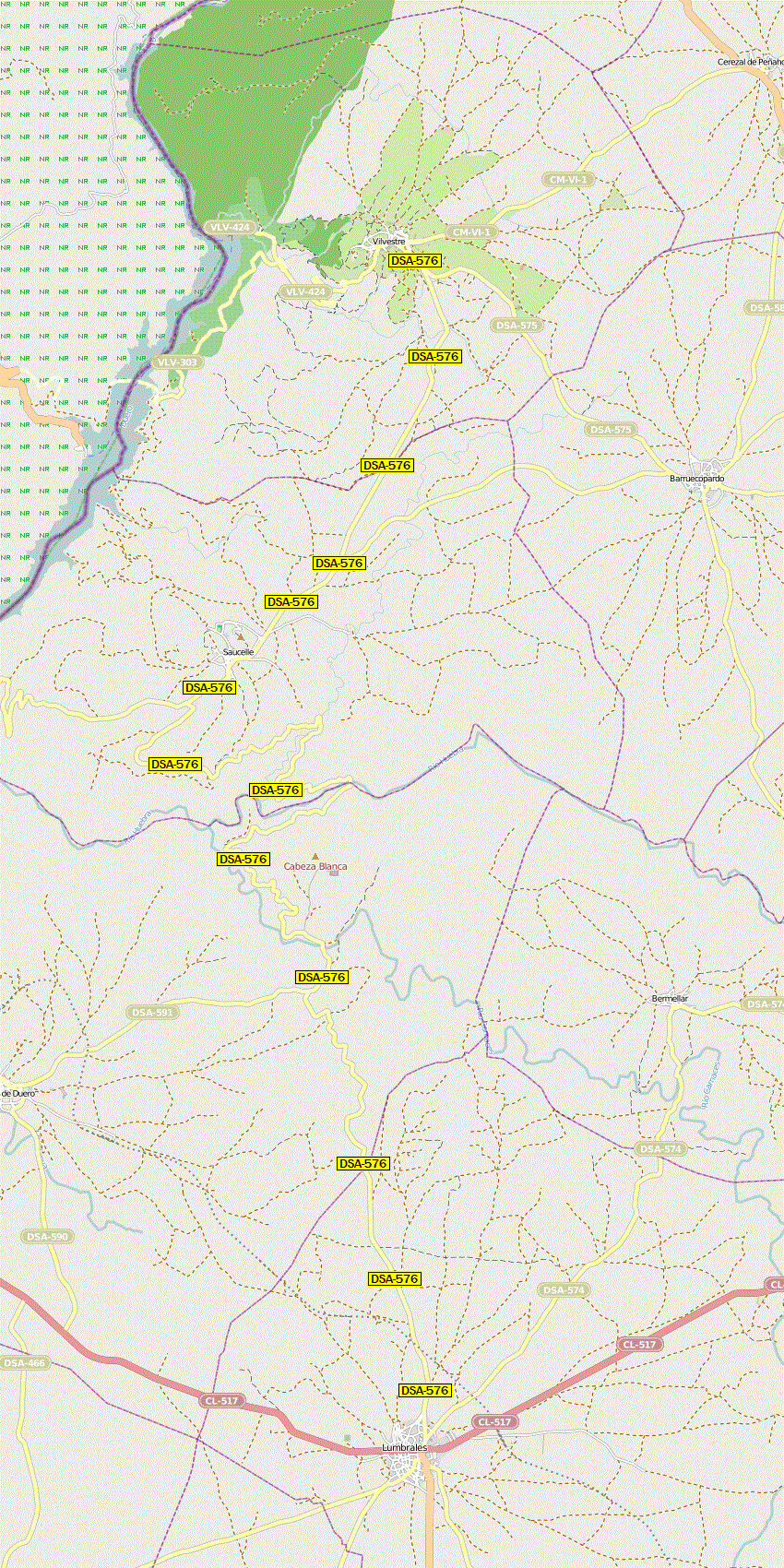 Map of the spanish road DSA-576